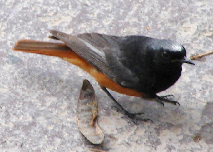 Phoenicurus ochruros ochruros, the Black Redstart nominate subspecies in Cappadocia, Central Turkey